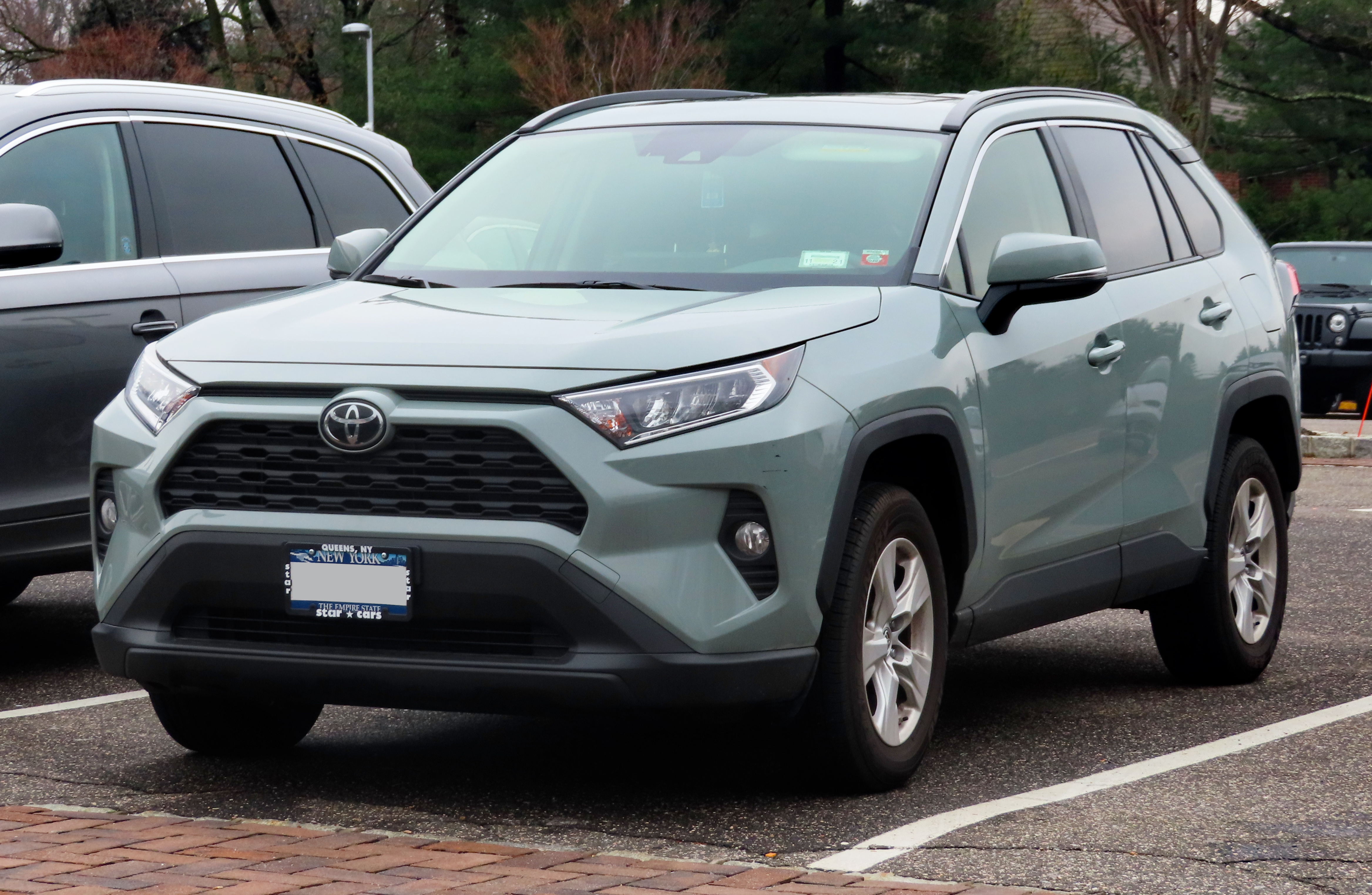 A 2019 Toyota RAV4 XLE photographed at Americana Manhasset, in Manhasset, New York, USA